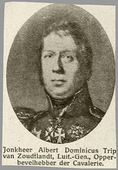 press clipping from a 19th-century Dutch newspaper, containing an engraved portrait of general A.D. Trip van Zoudtlandt